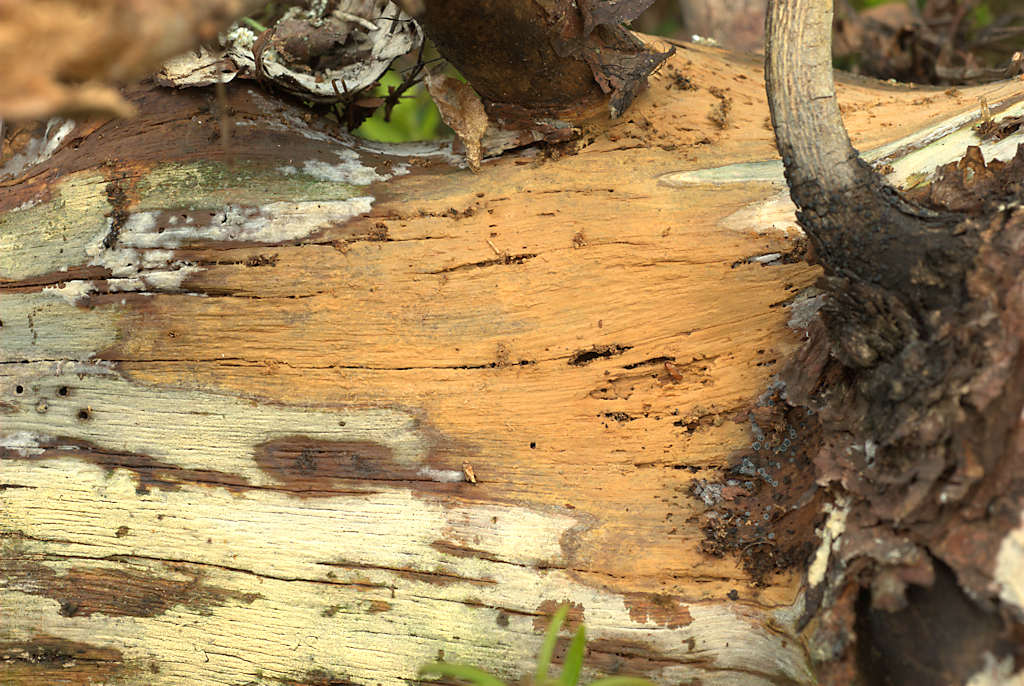 fruiting body in fresh state